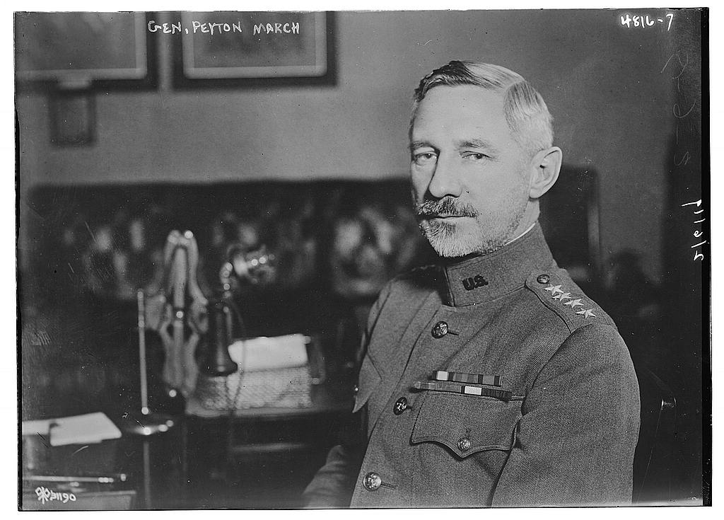 Peyton Conway March facing left circa 1918